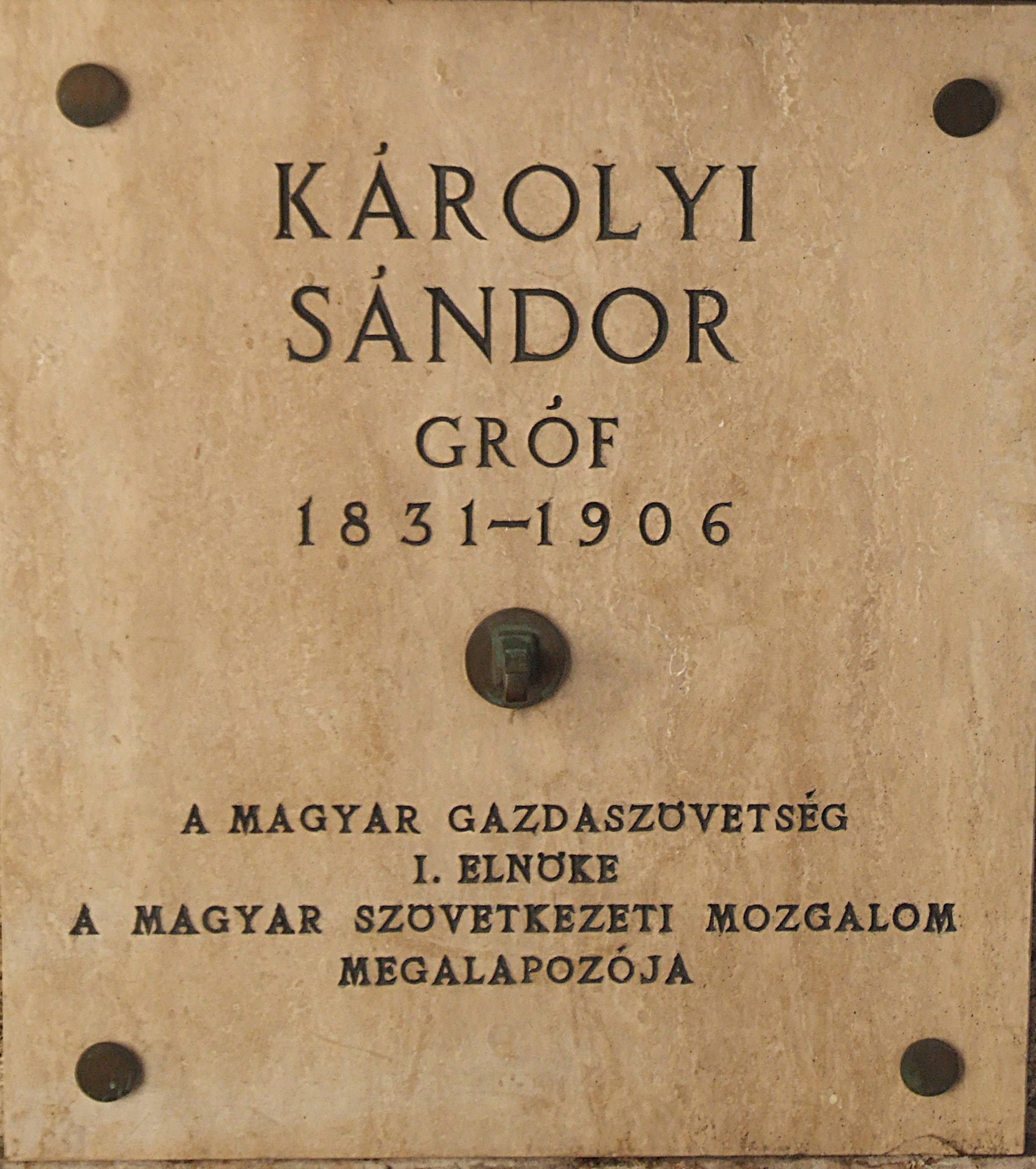 Sándor Károlyi (politician) commemorative plaque in Budapest District V, Kossuth Square No 11.